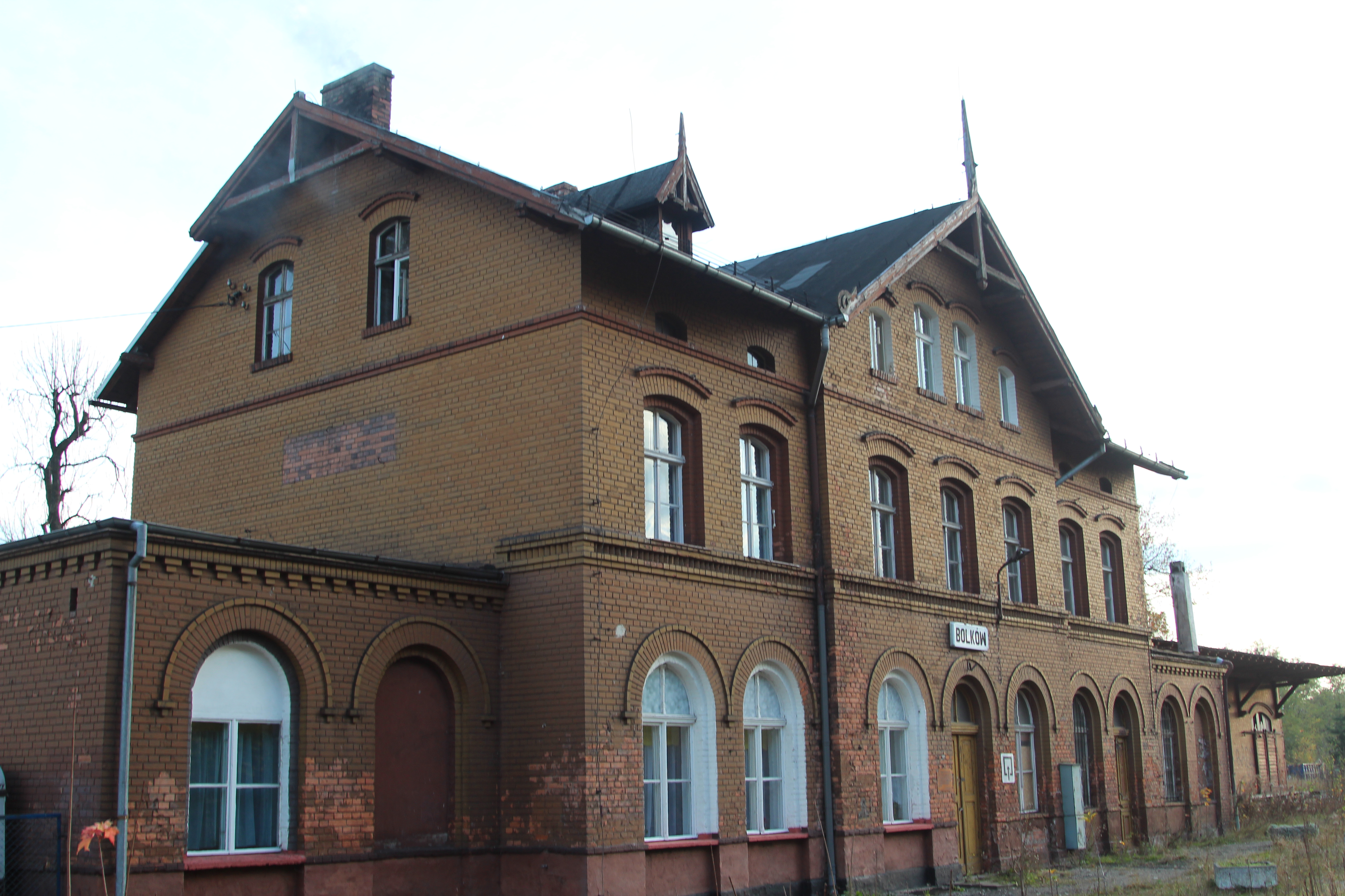 Closed train station in Bolków.